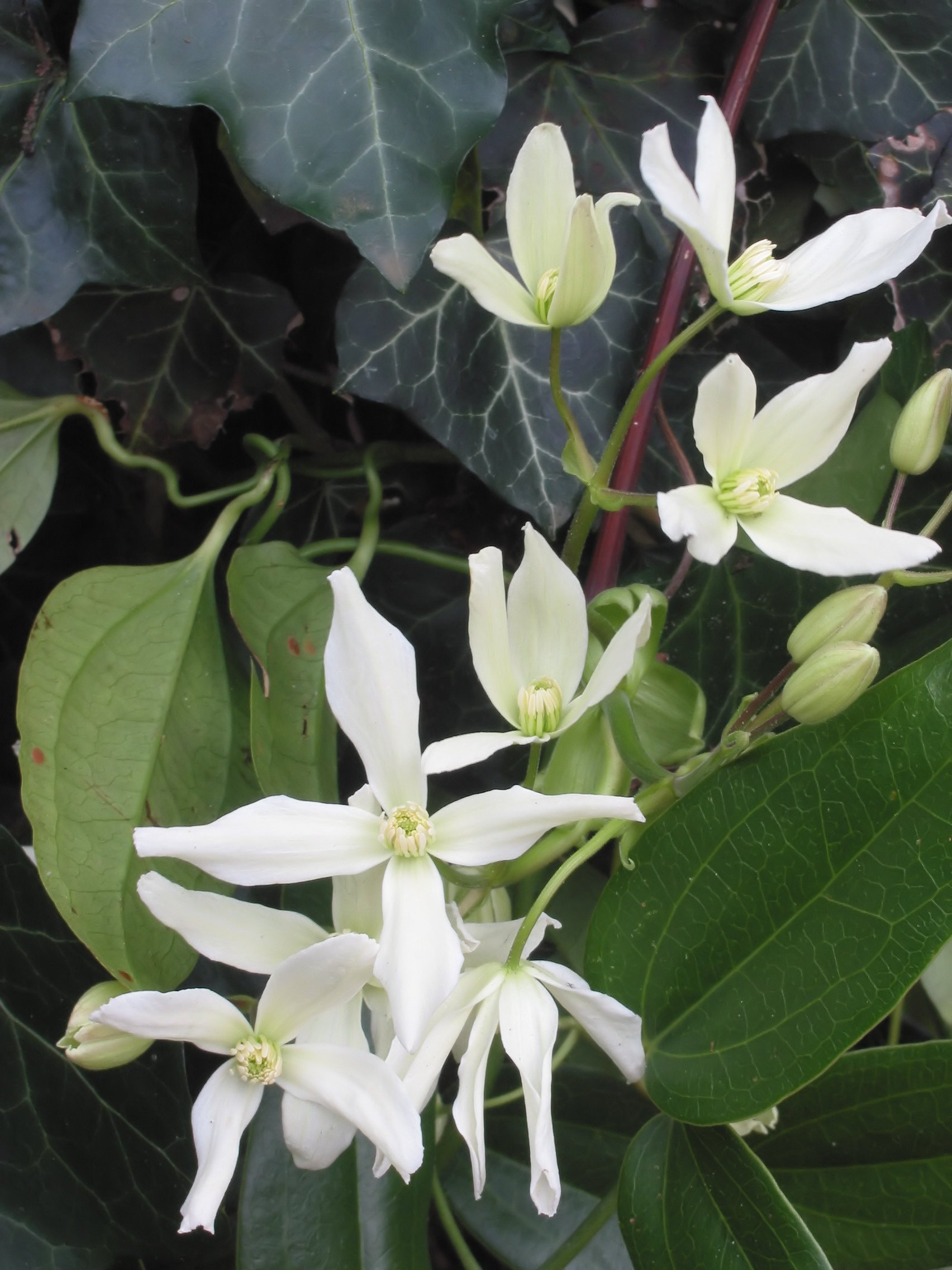 Clematis armandii